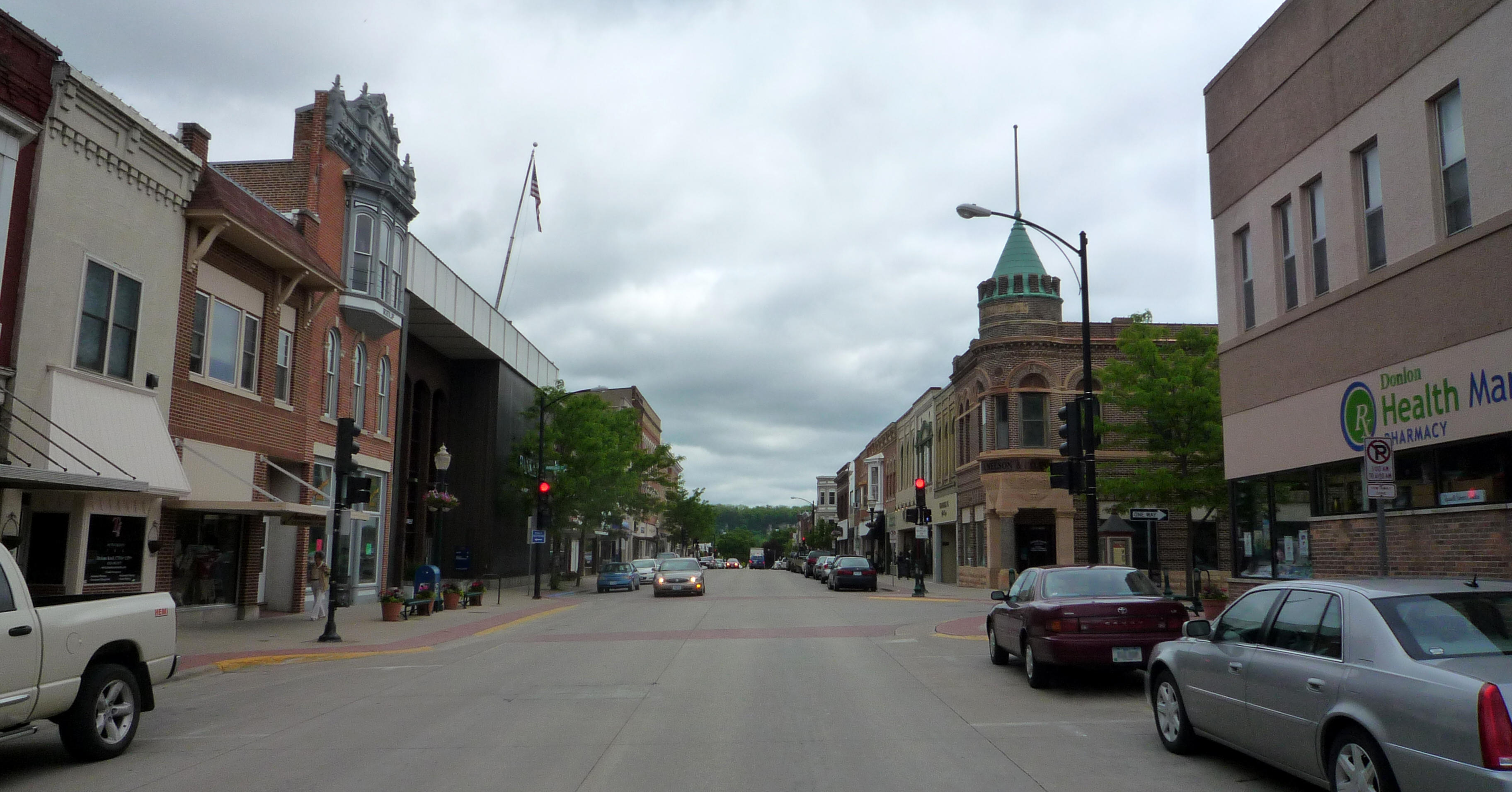 Water Street, downtown Decorah, Iowa, USA.